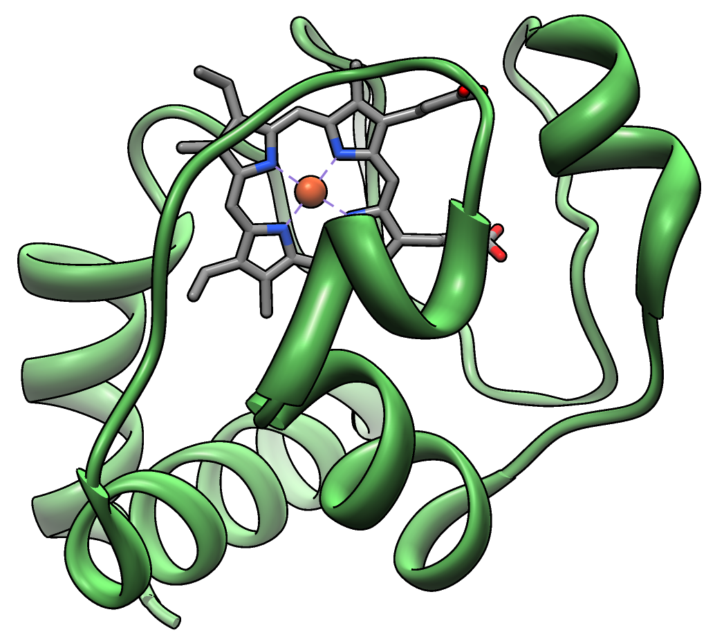 Three-dimensional structure of cytochrome c (green) with a heme molecule coordinating a central Iron atom (orange). PDB id, 1HRC, Bushnell et al., “High-resolution three-dimensional structure of horse heart cytochrome c.” J Mol Biol. 1990 Jul 20;214(2):585-95. PubMed PMID: 2166170.